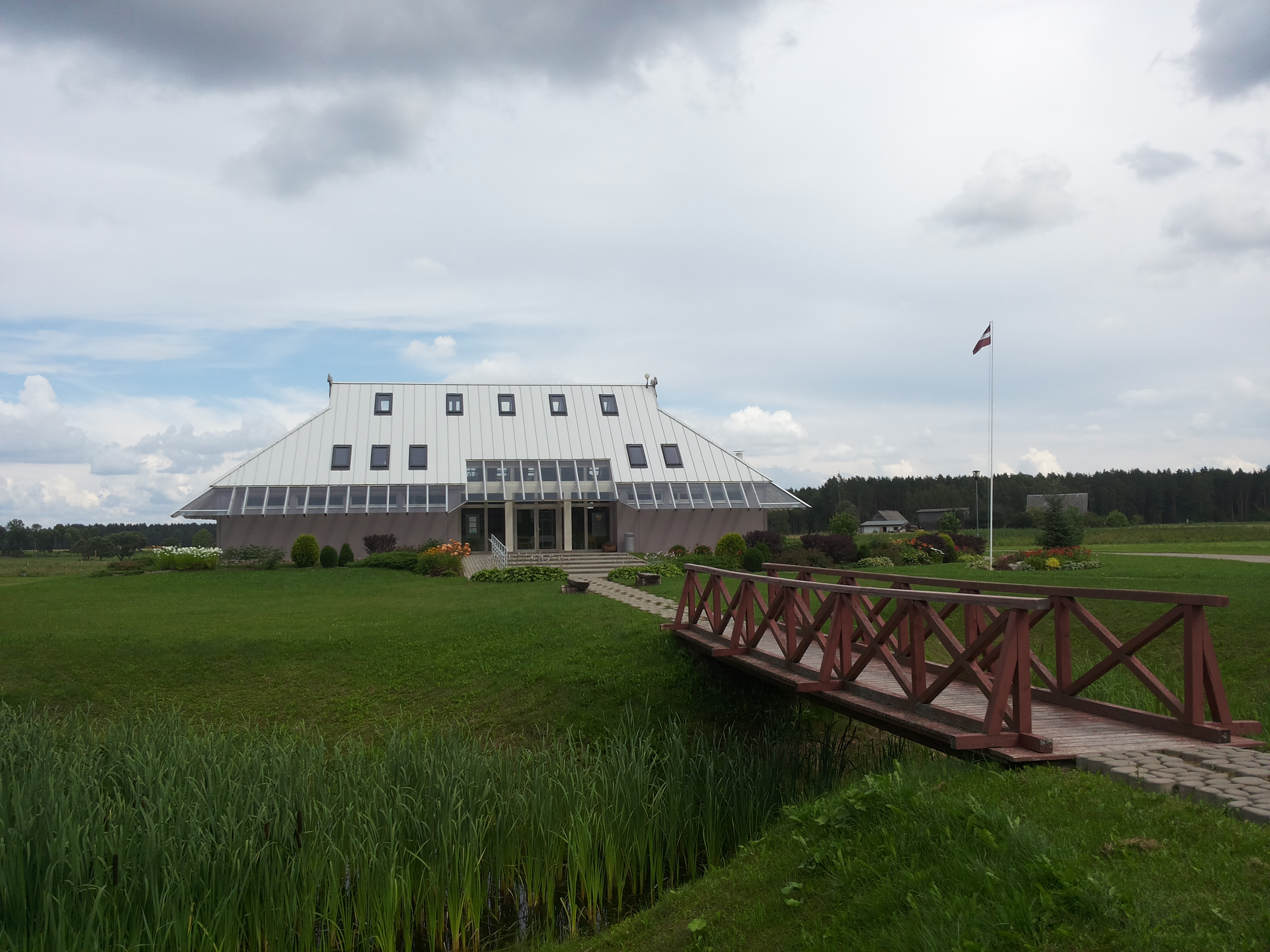 Meeting house in Latvia, Plāņi parish, Jaunklidzis. Built in 2015. Historical prototype of Jaunklidzis meeting house, was built in Plāņi parish, Jaunmežuļos in 1785. The building was mooved in 1940 to Latvian Ethnographic Open Air Museum.